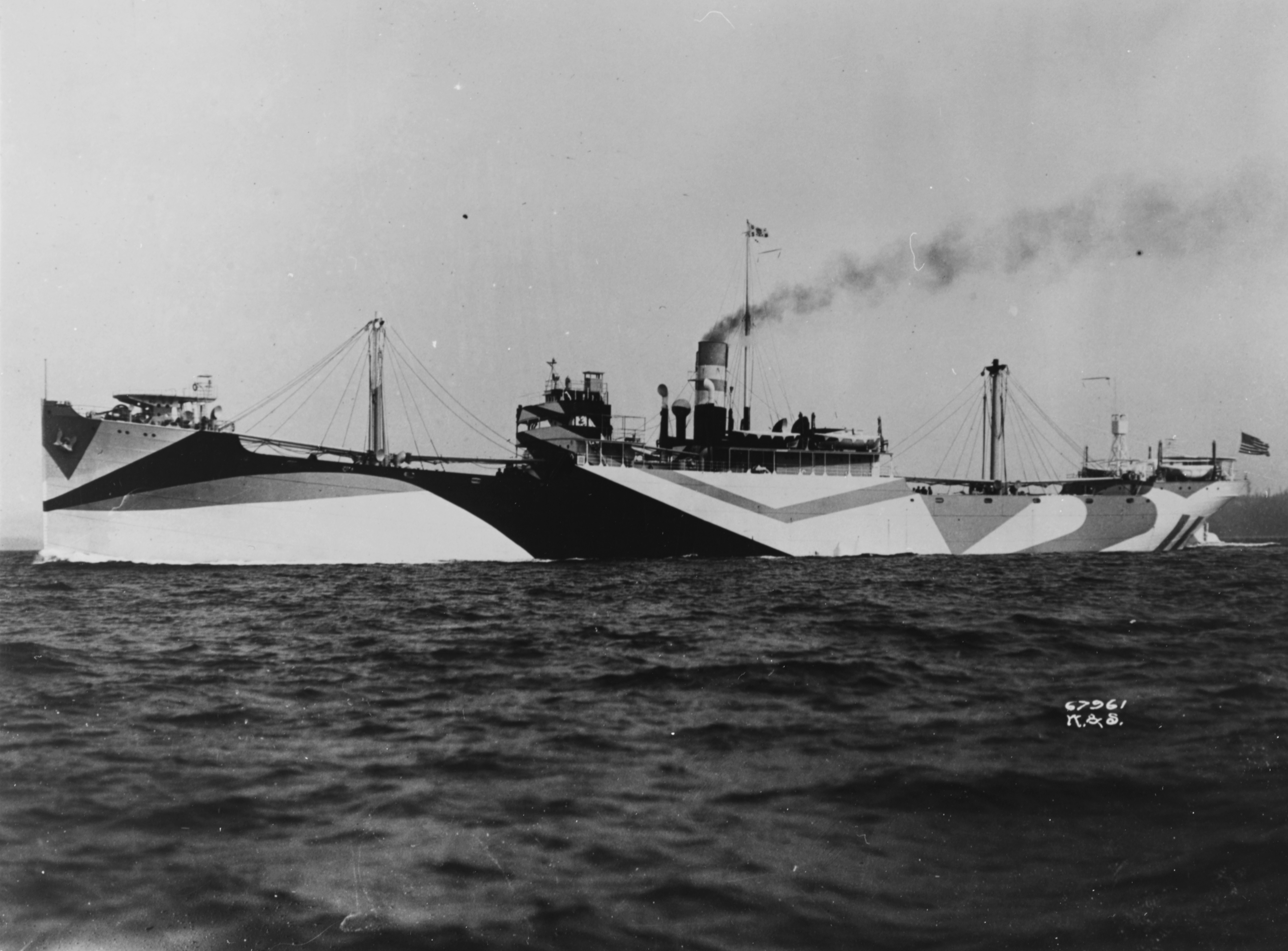 West Ekonk (American Freighter, 1918) Underway, probably during her trials in July 1918, while painted in pattern camouflage. She had been launched by the Skinner & Eddy Corporation shipyard, Seattle, Washington, on 22 June 1918, after being on the building ways for only 57 work days. Delivered by her builder on 13 July 1918, she was placed in commission the same day as USS West Ekonk (ID # 3313). The ship was returned to the U.S. Shipping Board on 9 April 1919. She later became British merchant ship SS Empire Wildebeeste and was sunk during World War II. The original print is in National Archives' Record Group 19-LCM. U.S. Naval Historical Center Photograph.